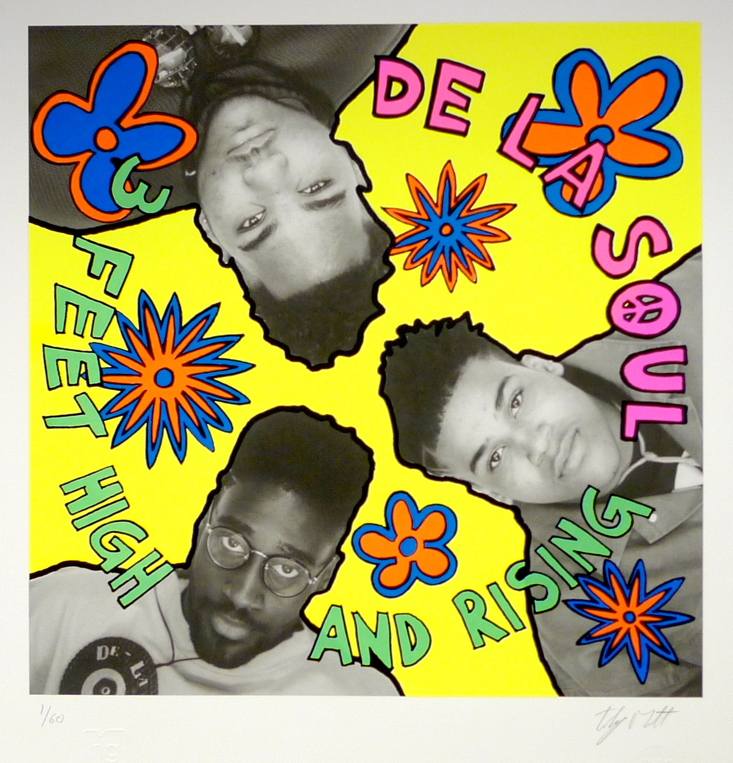 Giclée print of original album art work of De La Soul's 3 Feet High and Rising, designed by Toby Mott.